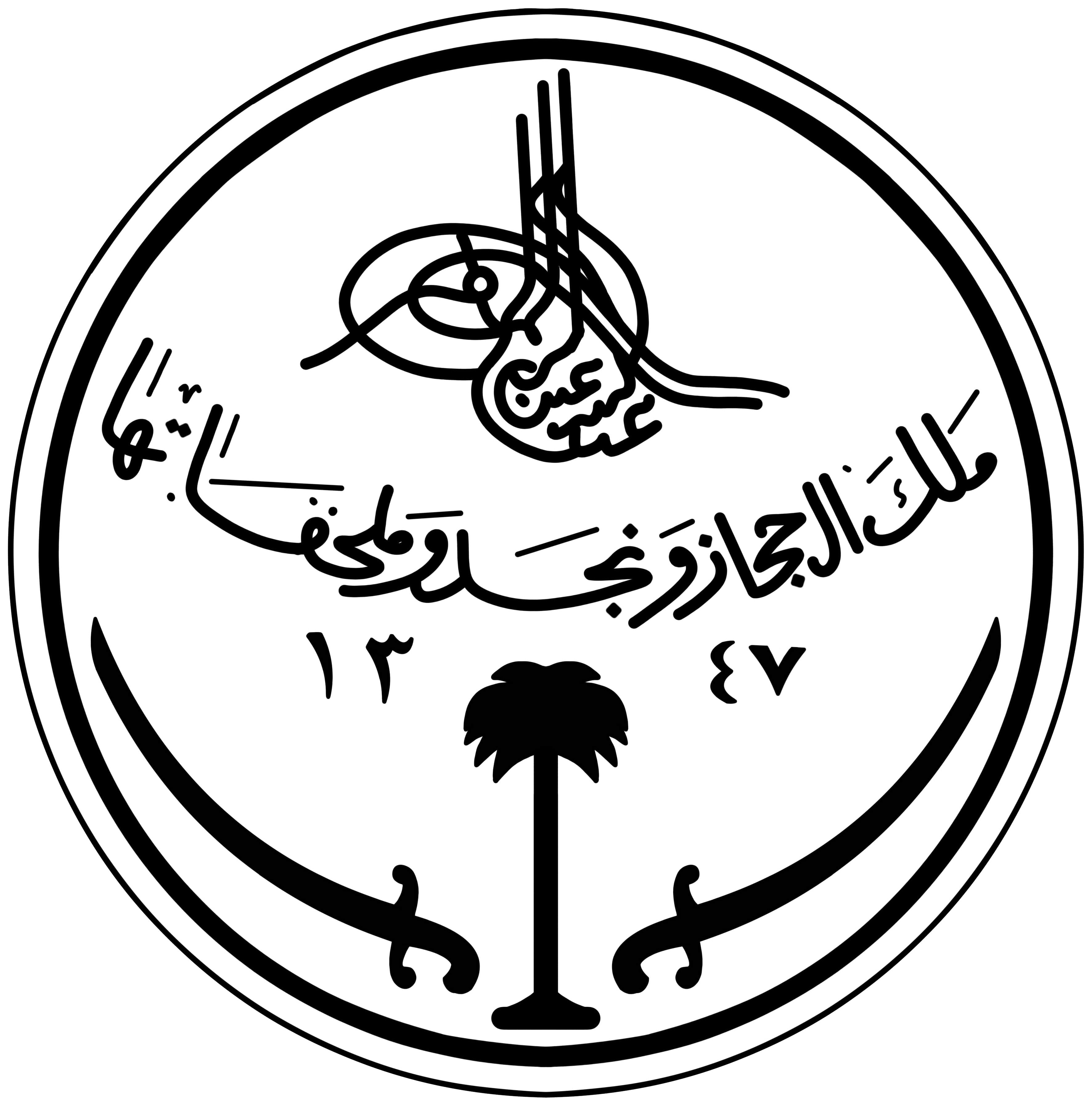 Emblem of Saudi Arabia (1932-1950)